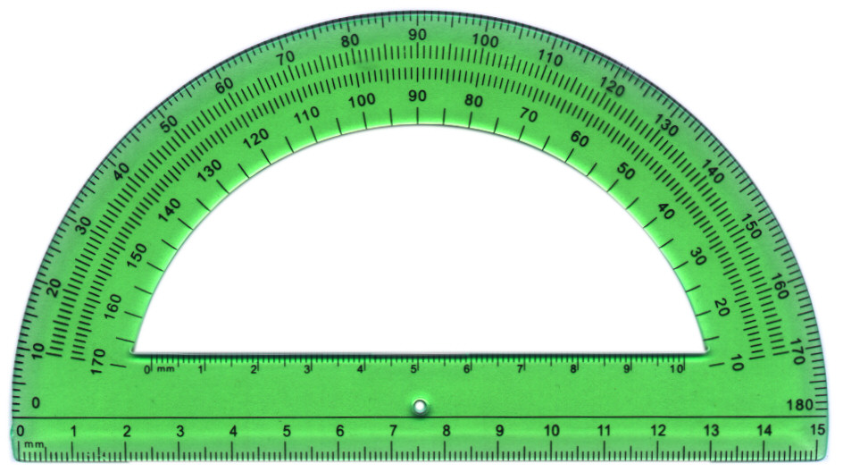 Protractor